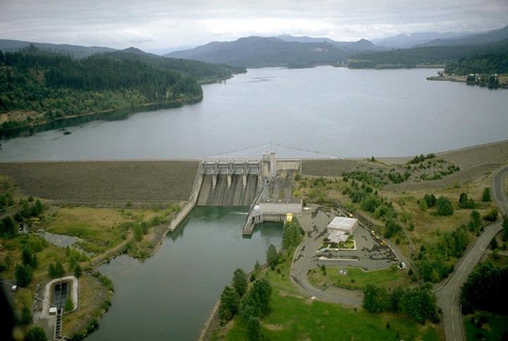 Aerial view of Foster Dam, a dam for hydroelectric power and flood control on the South Santiam River in Linn County, Oregon, United States